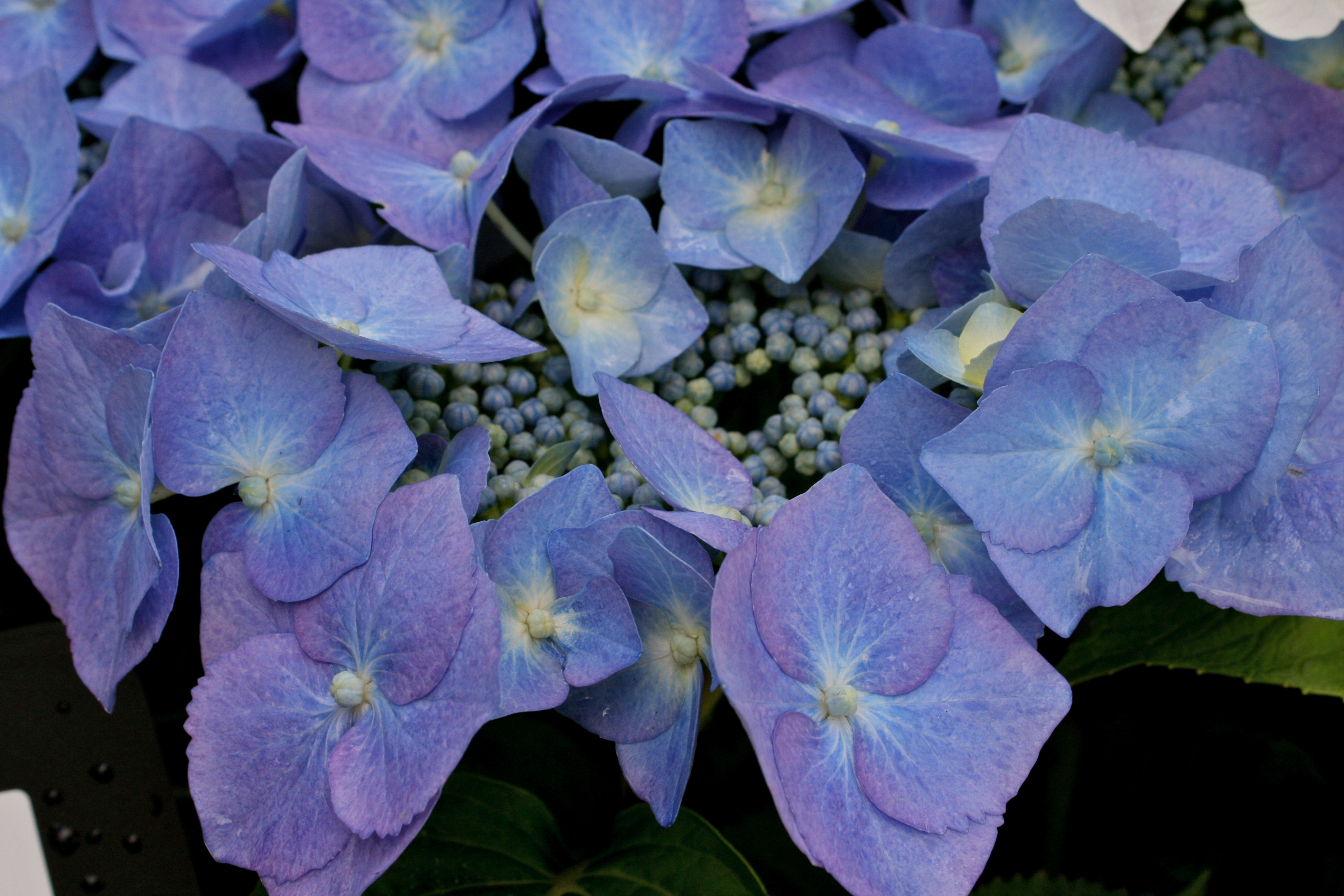 Hydrangea macrophylla Blaumeise. Taken during Tatton Park Flower Show 2009